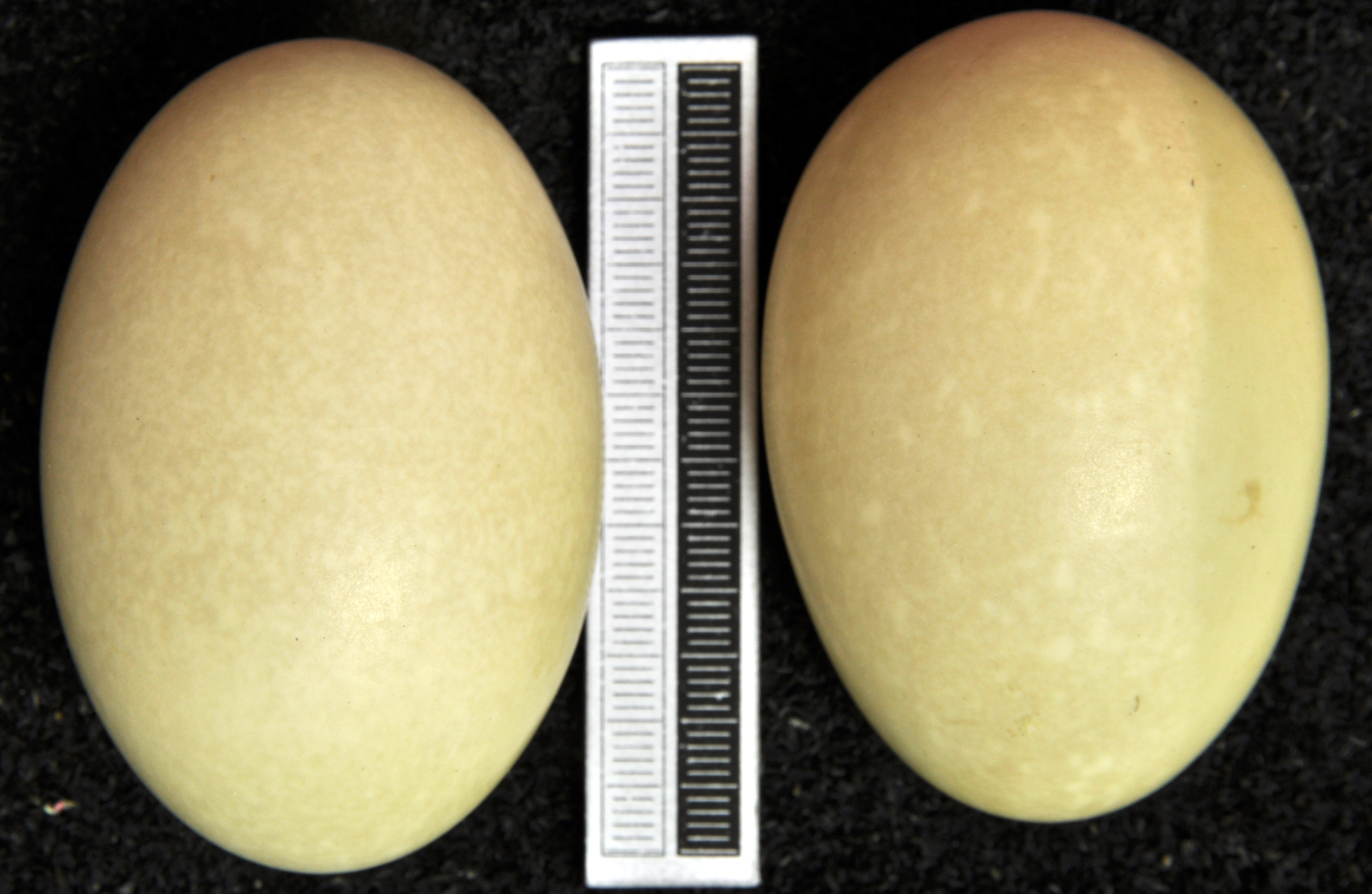 Tufted duck Aythya fuligula , egg, Coll. Museum Wiesbaden